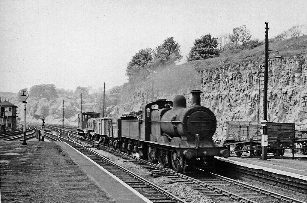 Up local goods at Miller's Dale Station. View westward, towards Buxton, also Peak Forest and Manchester; ex-Midland Derby - Manchester (Central) main line and junction for Buxton - all closed 6/3/67. The locomotive is ex-Midland 3F 0-6-0 No. 43749.